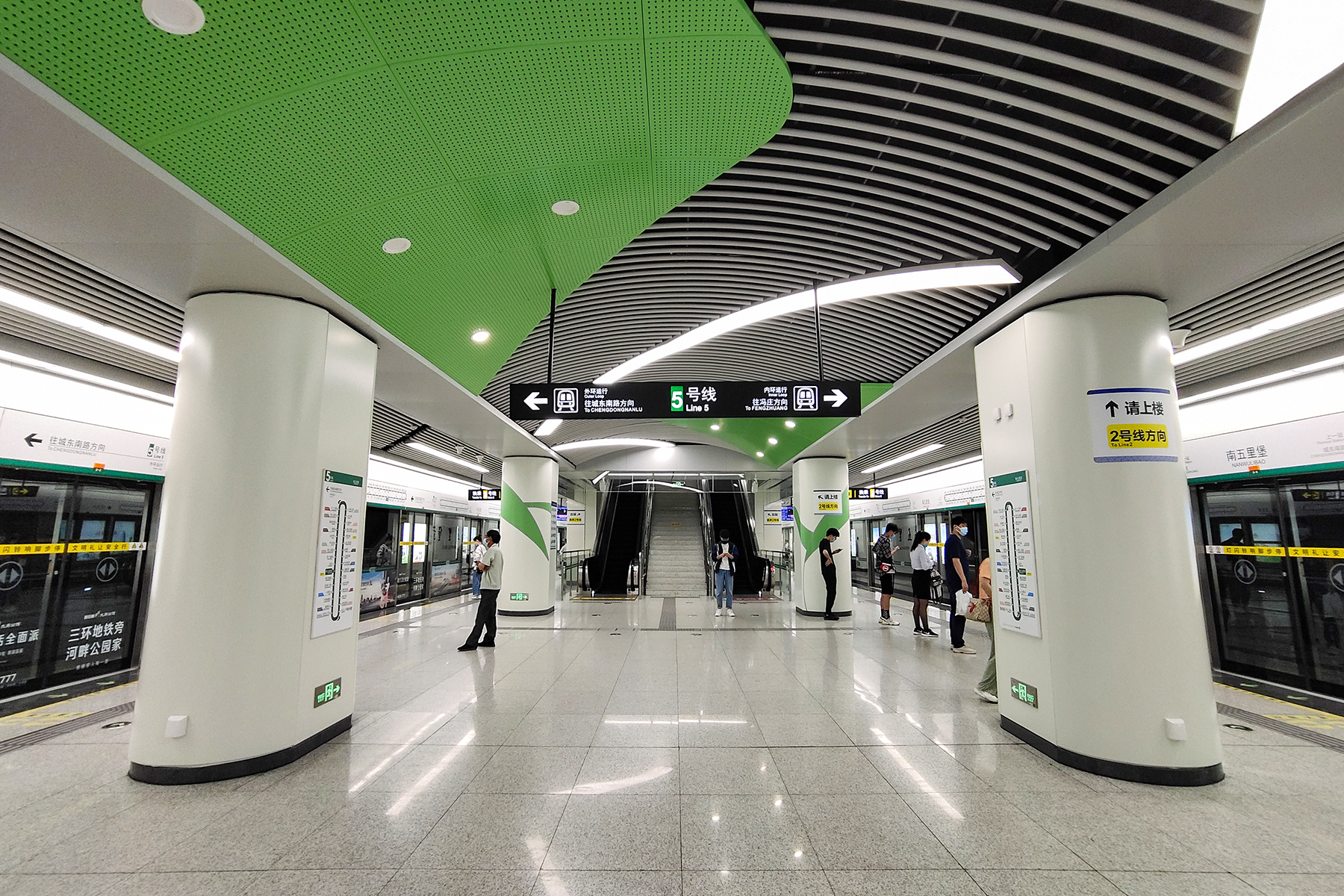 Platform of Nanwulibao Station, Zhengzhou Metro